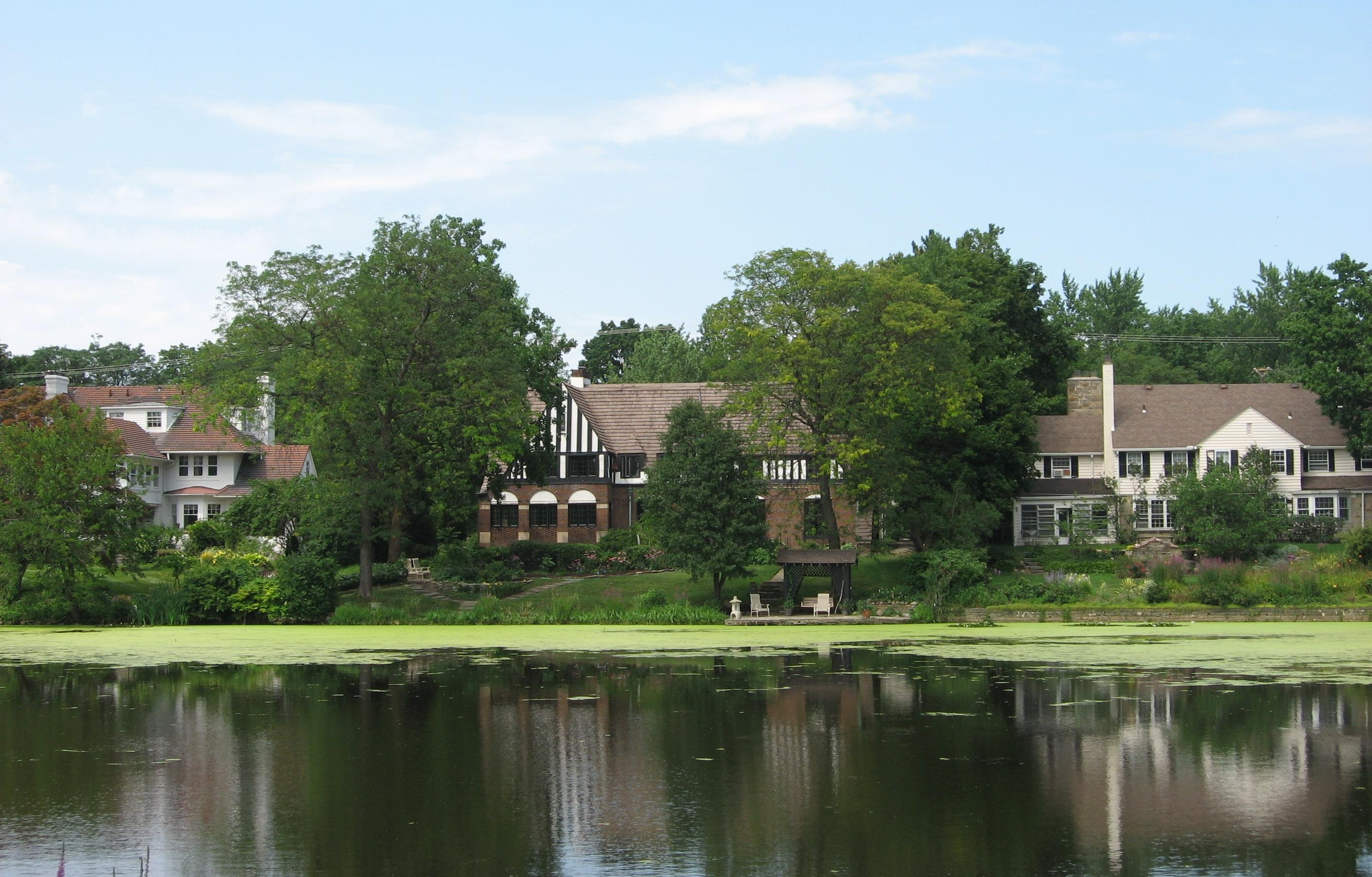 A picture of 3 houses across from green lake in Shaker Heights, Ohio, USA.